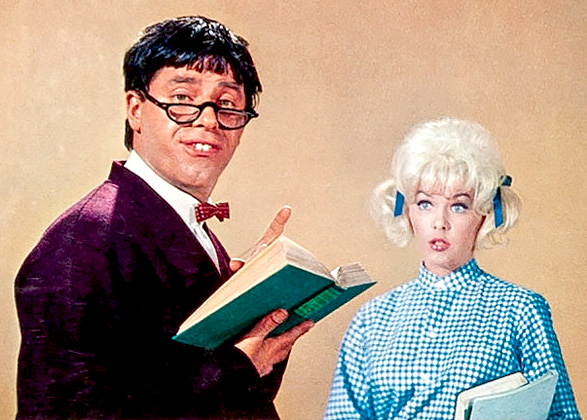 Promotional photo for the 1963 film The Nutty Professor, featuring Jerry Lewis as Professor Julius F. Kelp and Stella Stevens as Stella Purdy.